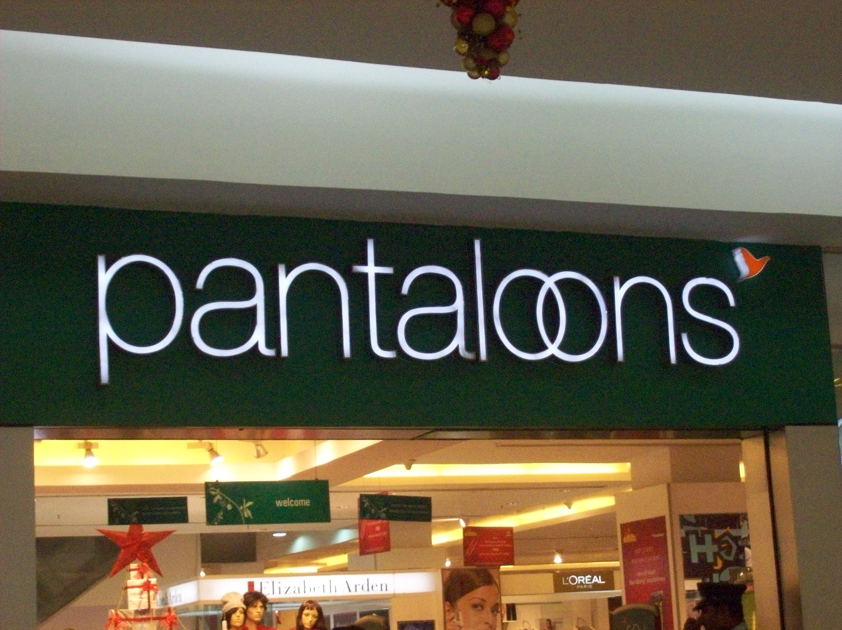 The Pantaloons store at South City mall, Calcutta.